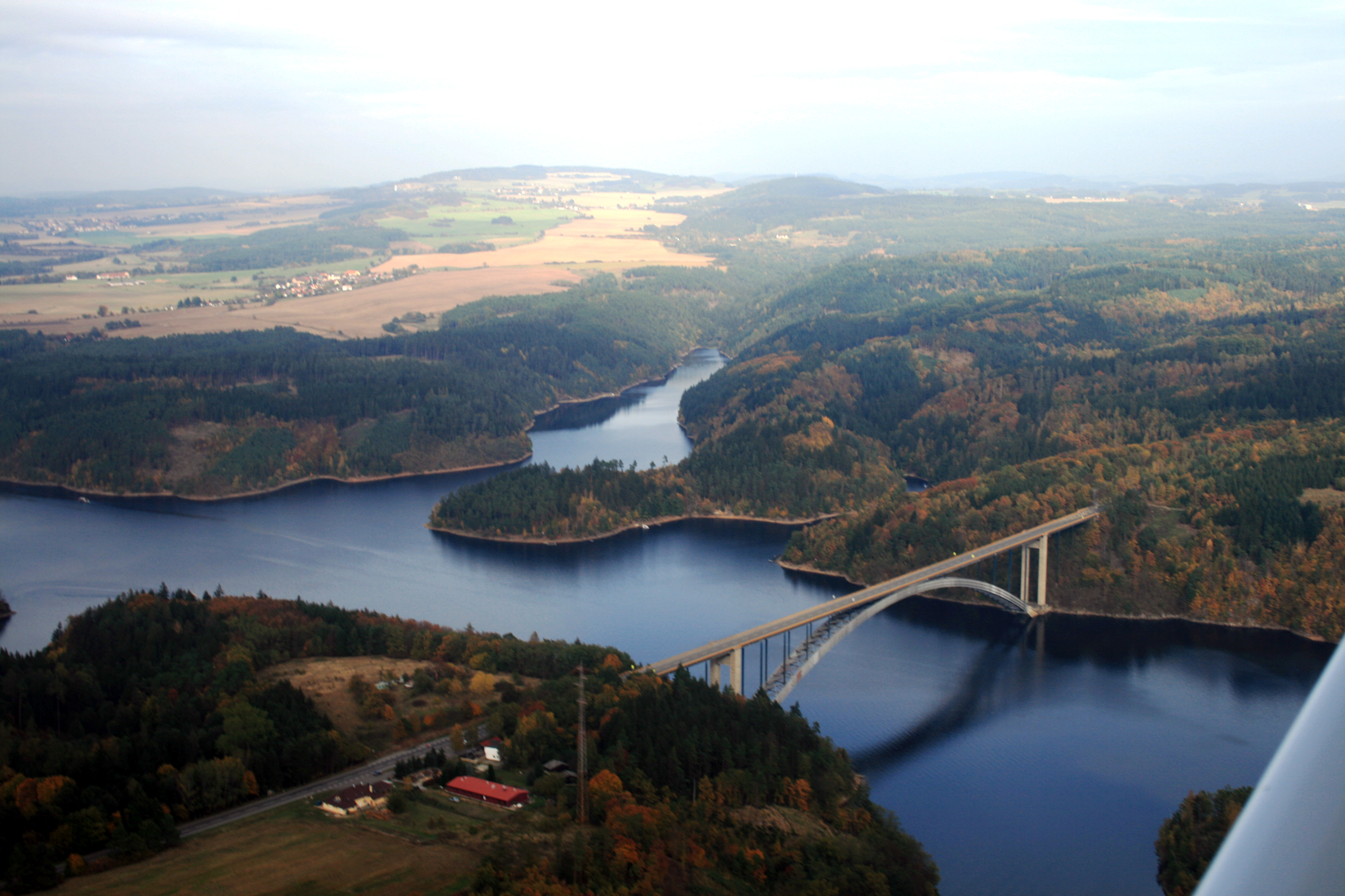 Air photo of bridge Žďákovský most over Vltava river, south Bohemia, Czech Republic